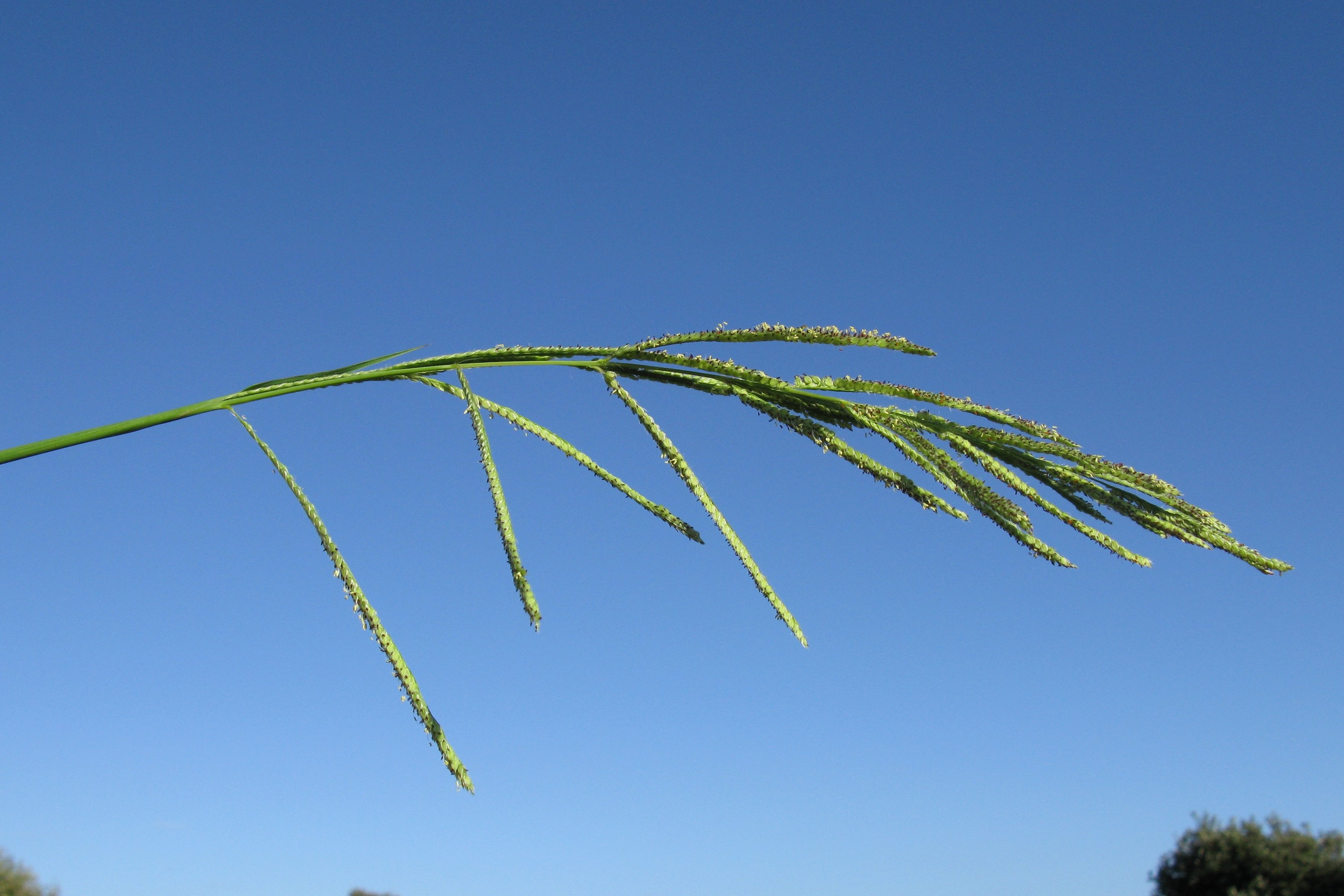 Flowerheads are a primary axis of 12-20 racemes, each with 4 rows of spikelets. Spikelets are disc-shaped, ovate, 2- 2.5 mm long and fringed with long silky hairs.